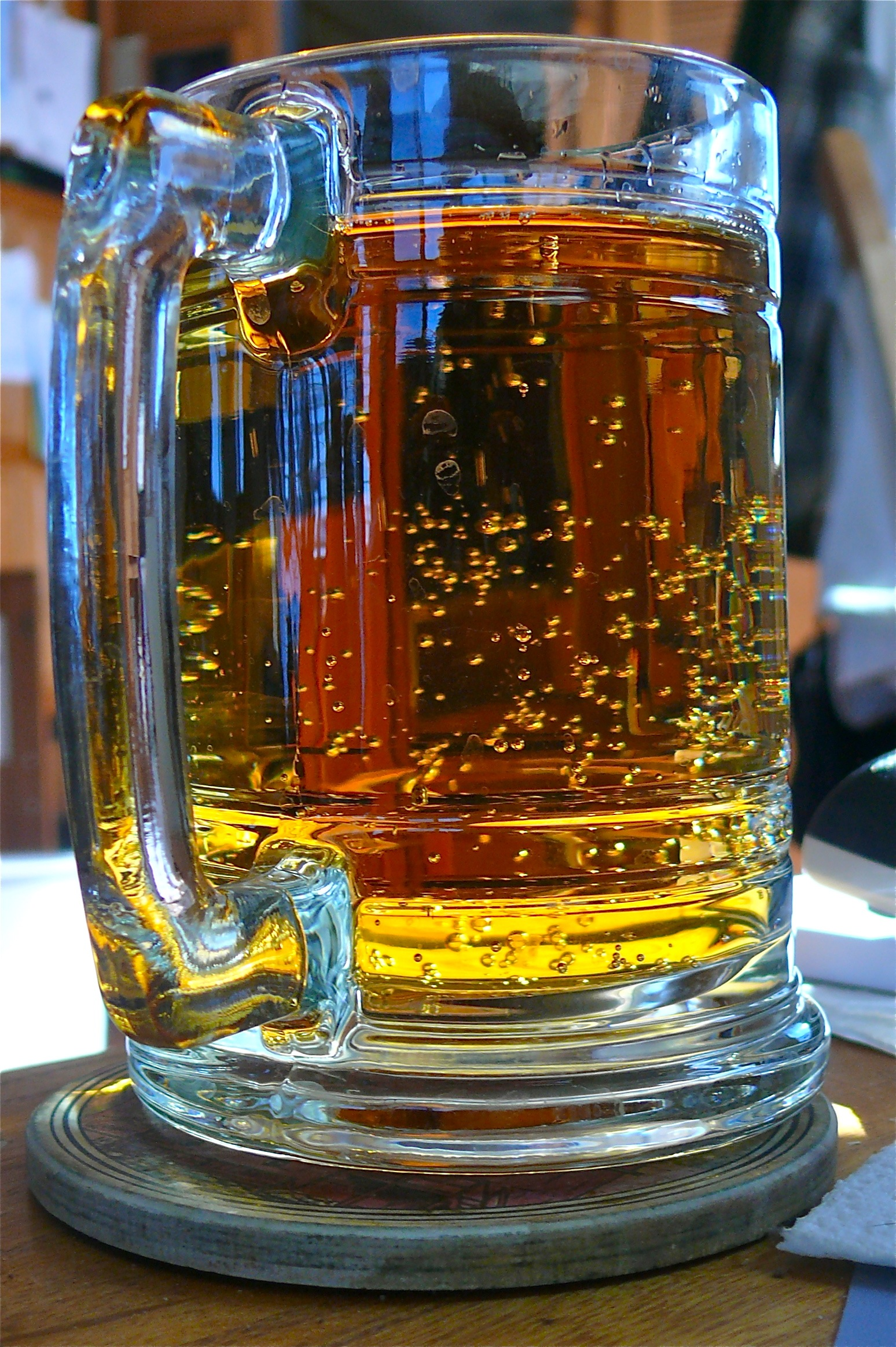 Original flickr description: "A sparkling mug of Vernors ginger ale on a warm afternoon."